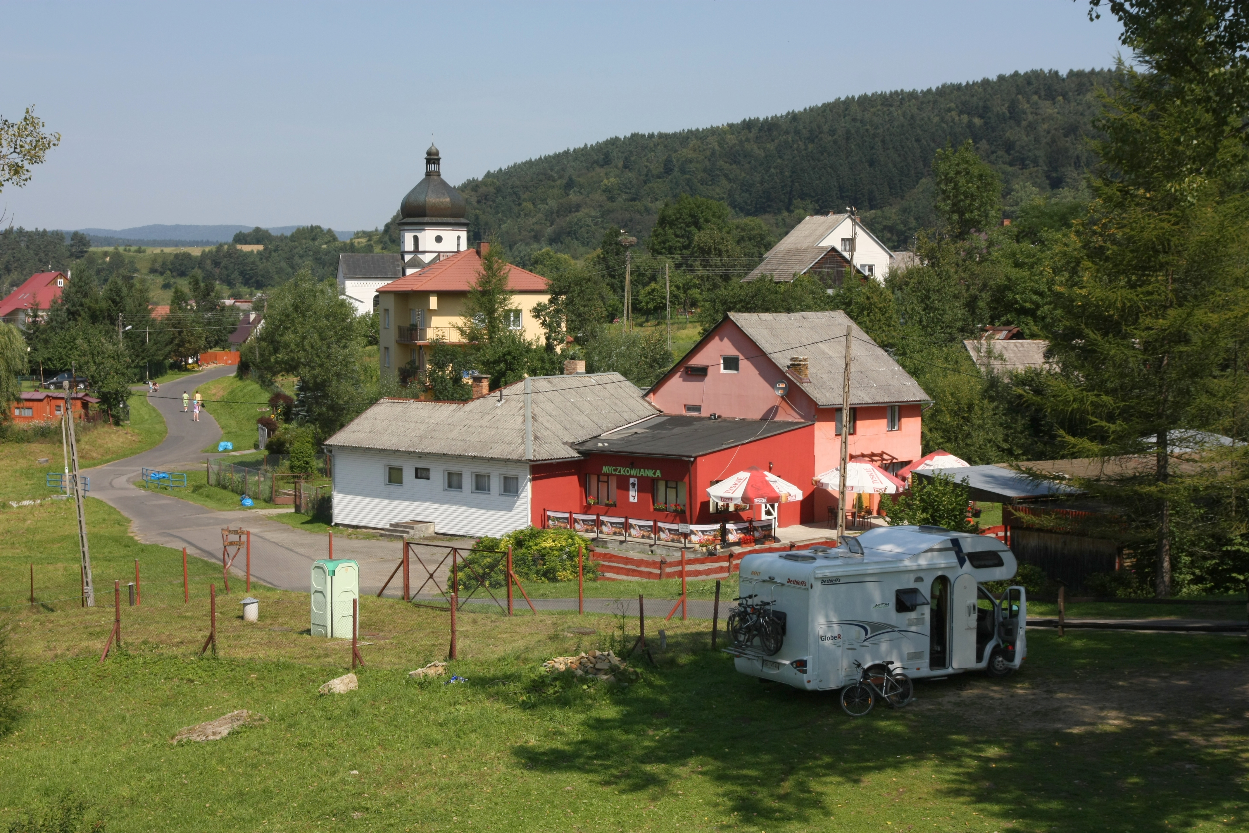 Myczkowce.